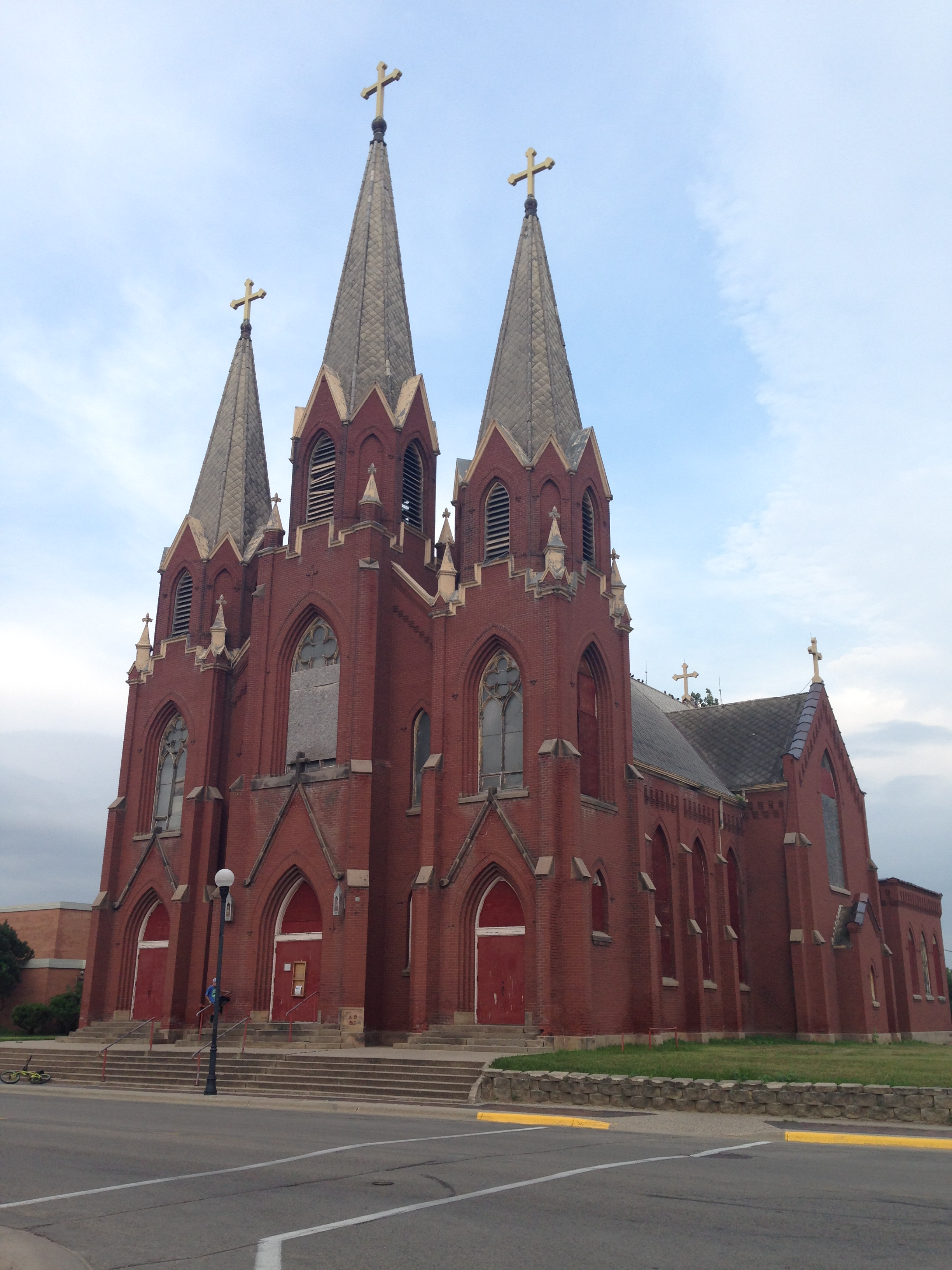 Cathedral of the Immaculate Conception